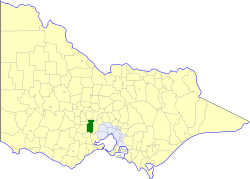 Location of the former Shire of Ballan within Victoria.